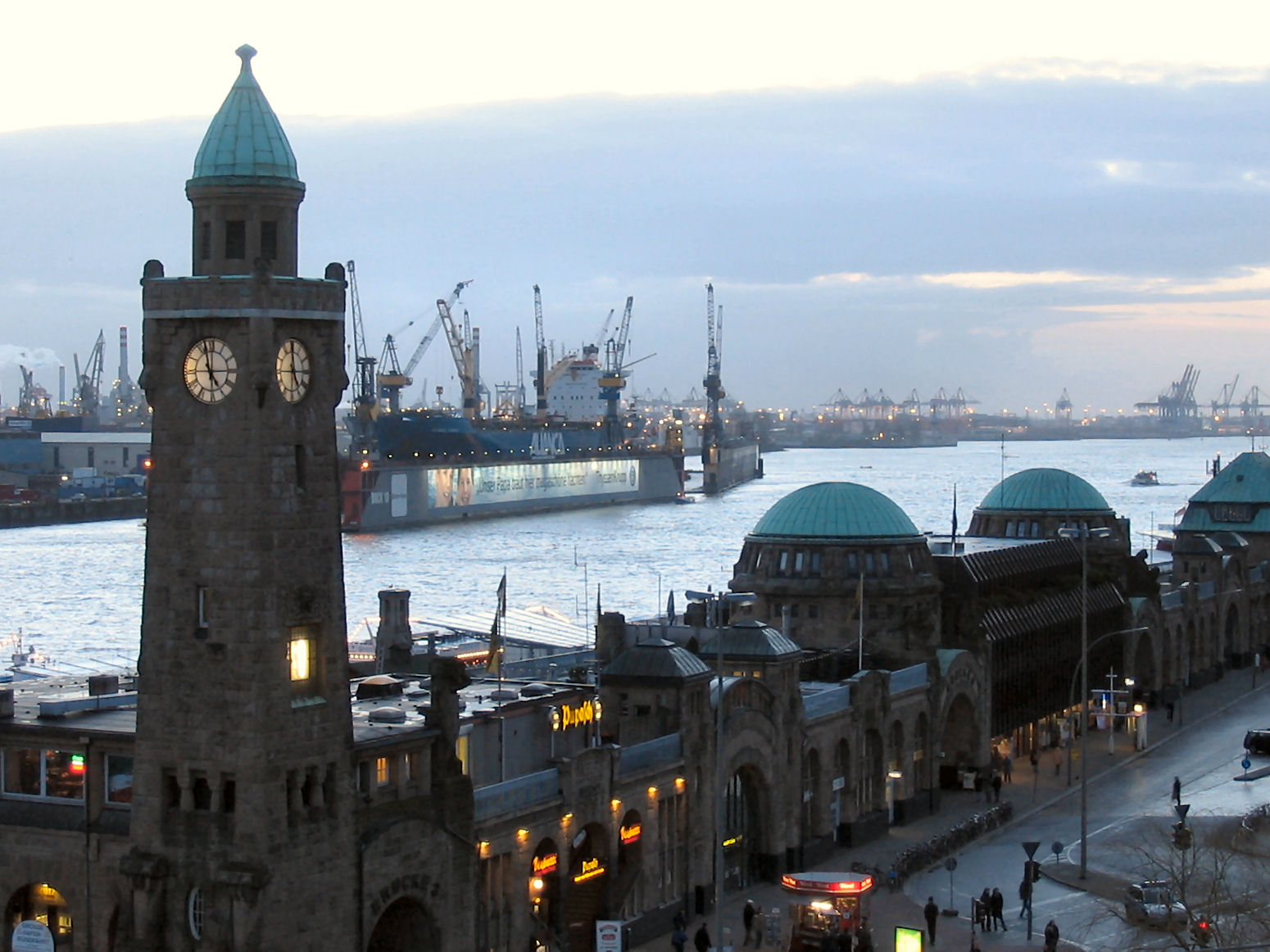 Sankt-Pauli-Landungsbrücken, Hamburg, Germany.